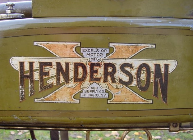 Henderson logo 1918